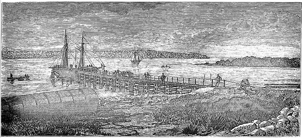 Tasmanian Charcoal Iron Company's wharf at Pt Lemriere (now part of Beauty Point, on the Tamar River estuary) in 1873. Unknown artist / engraver. Published in Illustrated Australian News for Home Readers, Tue 9 Sep 1873, on Page 156. This engraving shows the smaller of the two wharves (and first built).(The other longer wharf was at the end of Redbill Point).